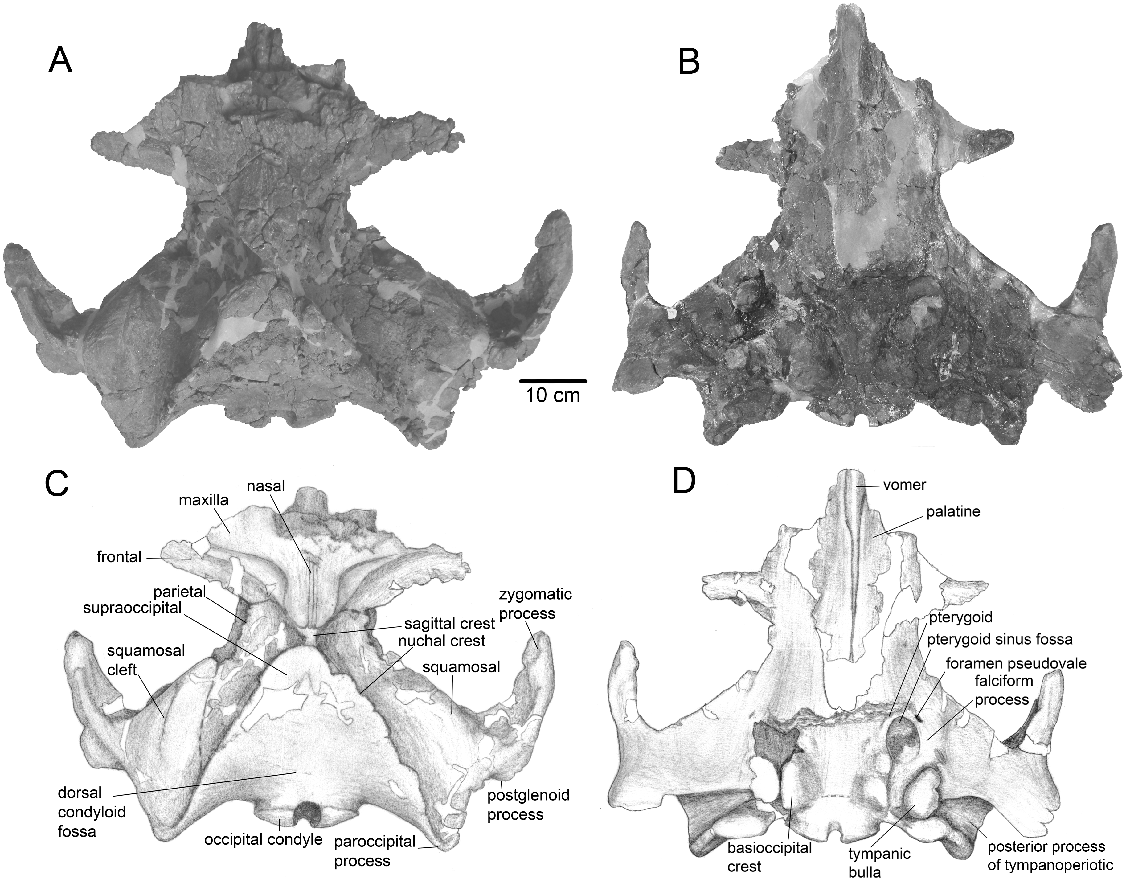 The skull of Tranatocetus argillarius, MGUH VP 2319. A, B, dorsal views; C, D, ventral views.